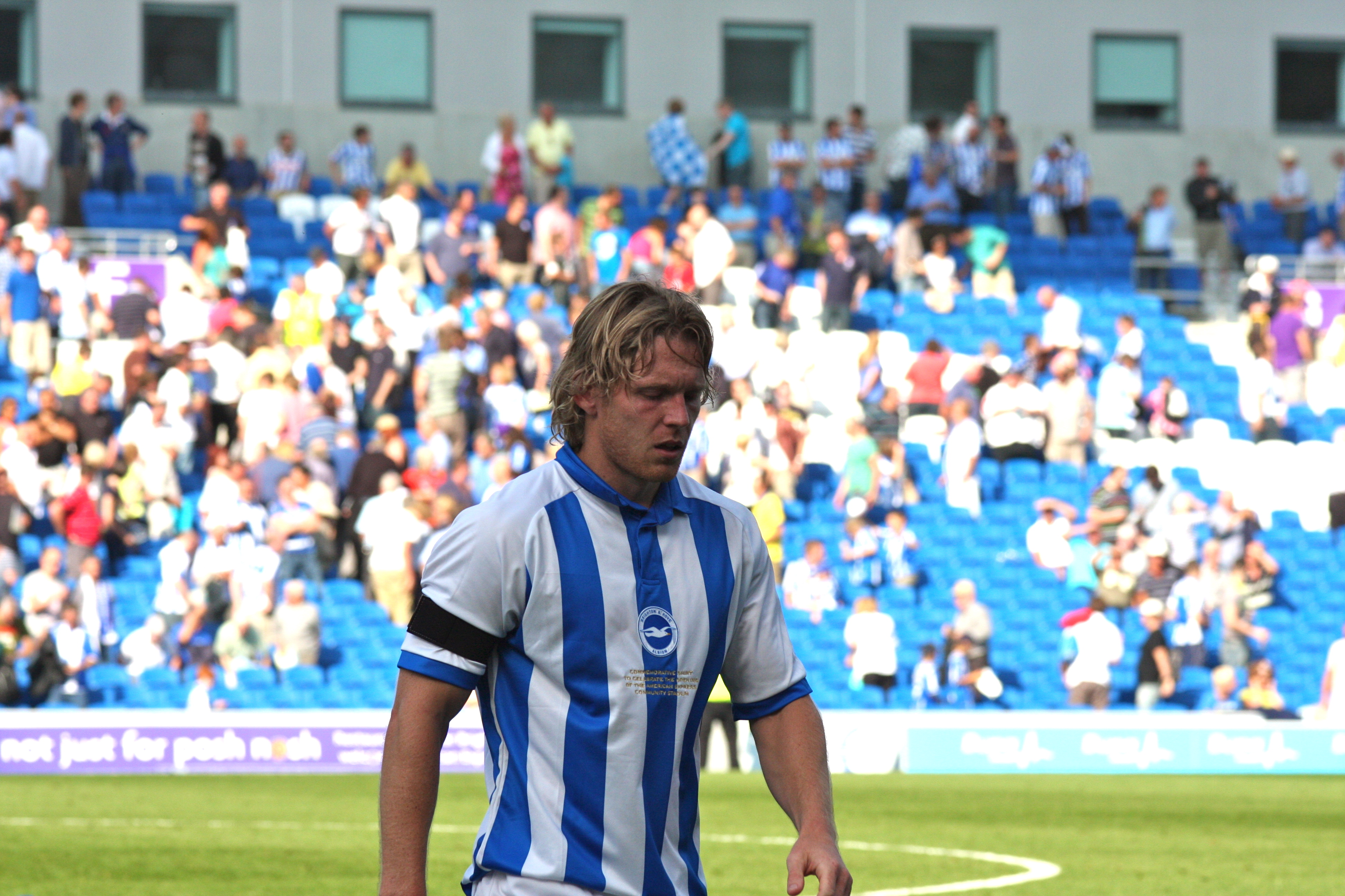 Craig Mackail-Smith, Brighton v Spurs Amex Opening 30/7/11